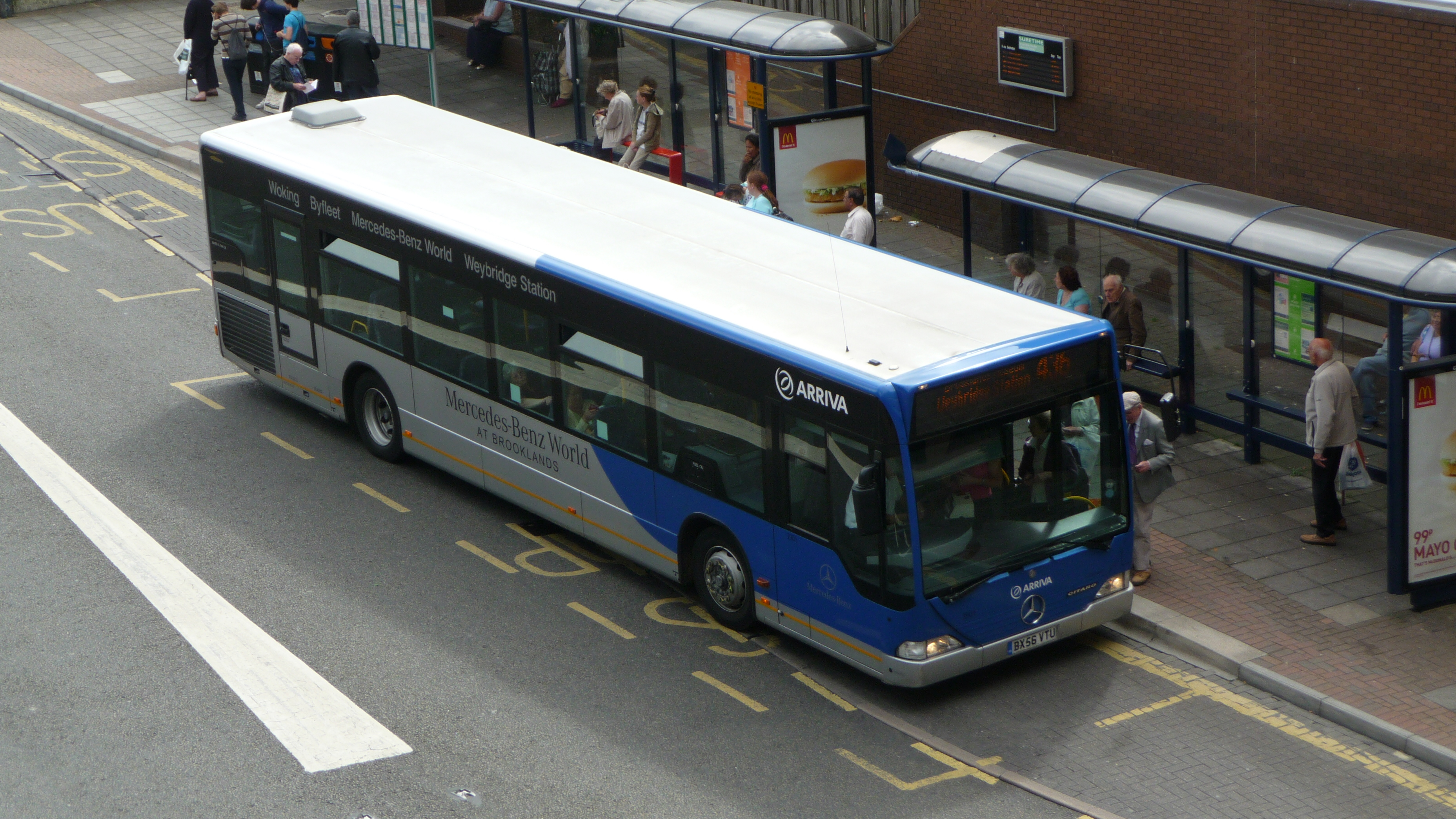 Arriva Guildford & West Surrey 3901 (BX56 VTU), a Mercedes-Benz Citaro, in Cawsey Way, Woking, Surrey, on route 436. The bus wears a special livery for Mercedes-Benz World, which route 436 serves.